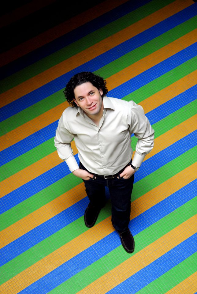 Photo of Gustavo Dudamel, 2008.